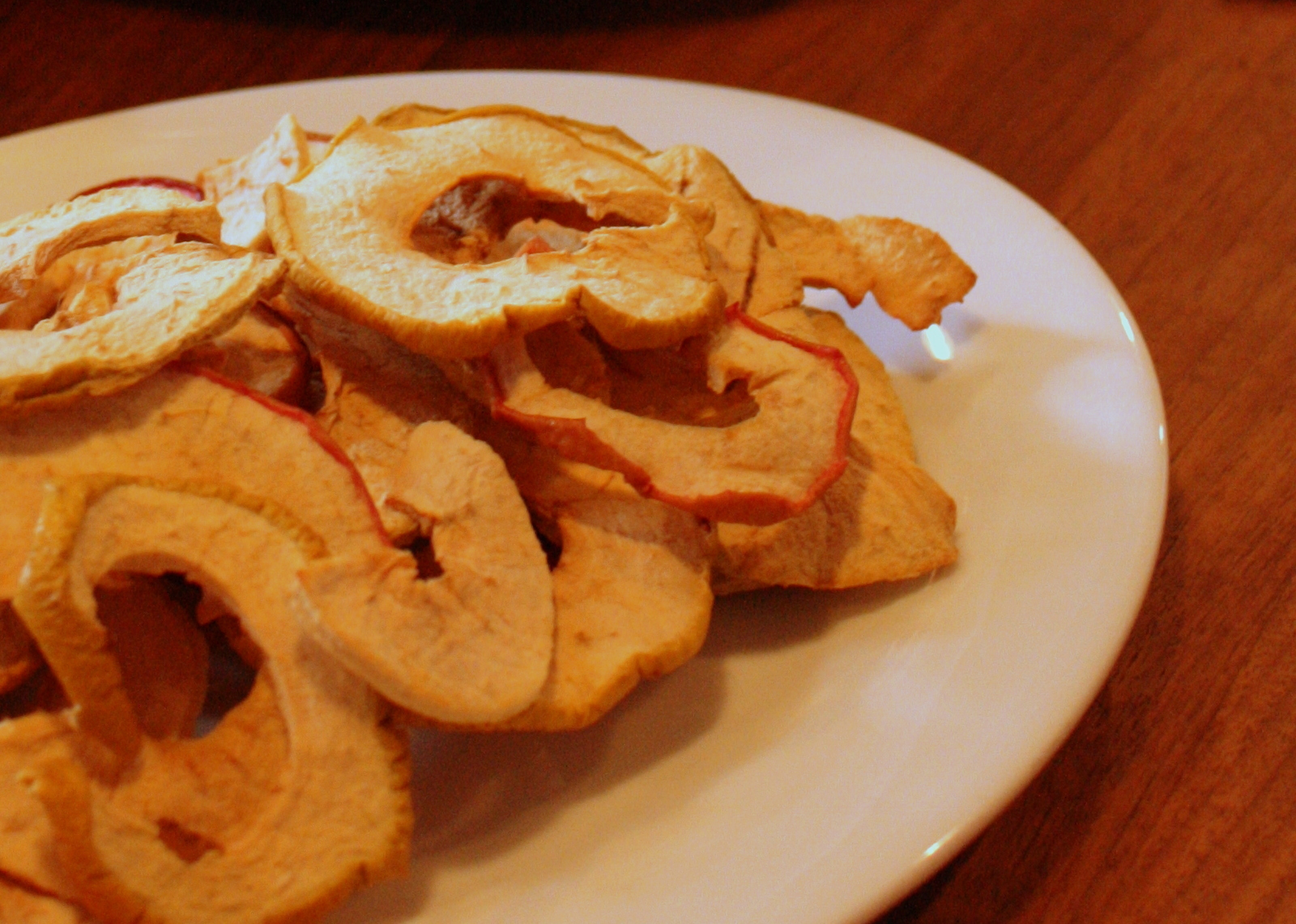 We also tried some dehydrated apples - Rebecca gave us a recipe for making without a dehydrator.